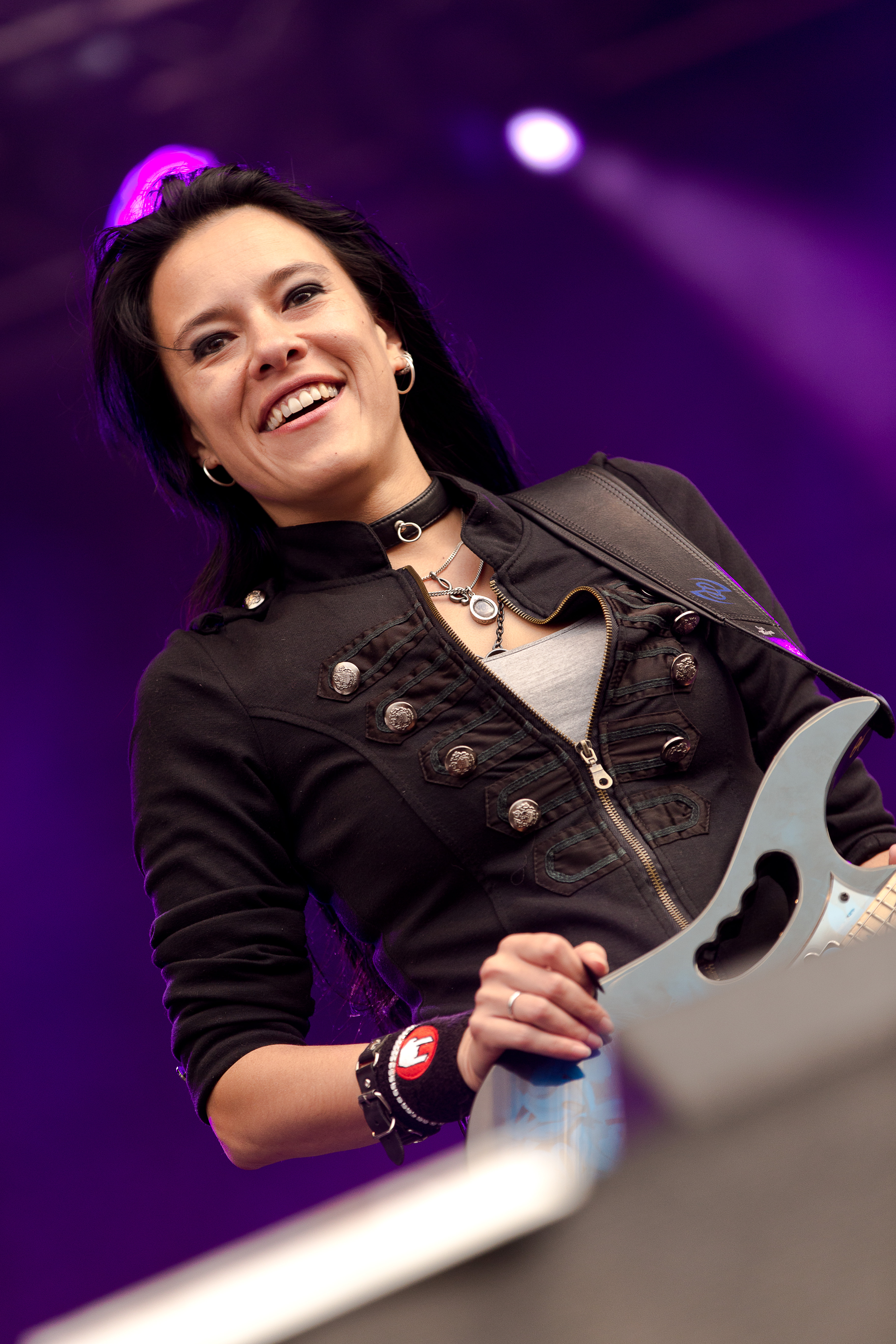 The German rock band Knorkator at the Rockharz Open Air 2016 in Ballenstedt/Germany.